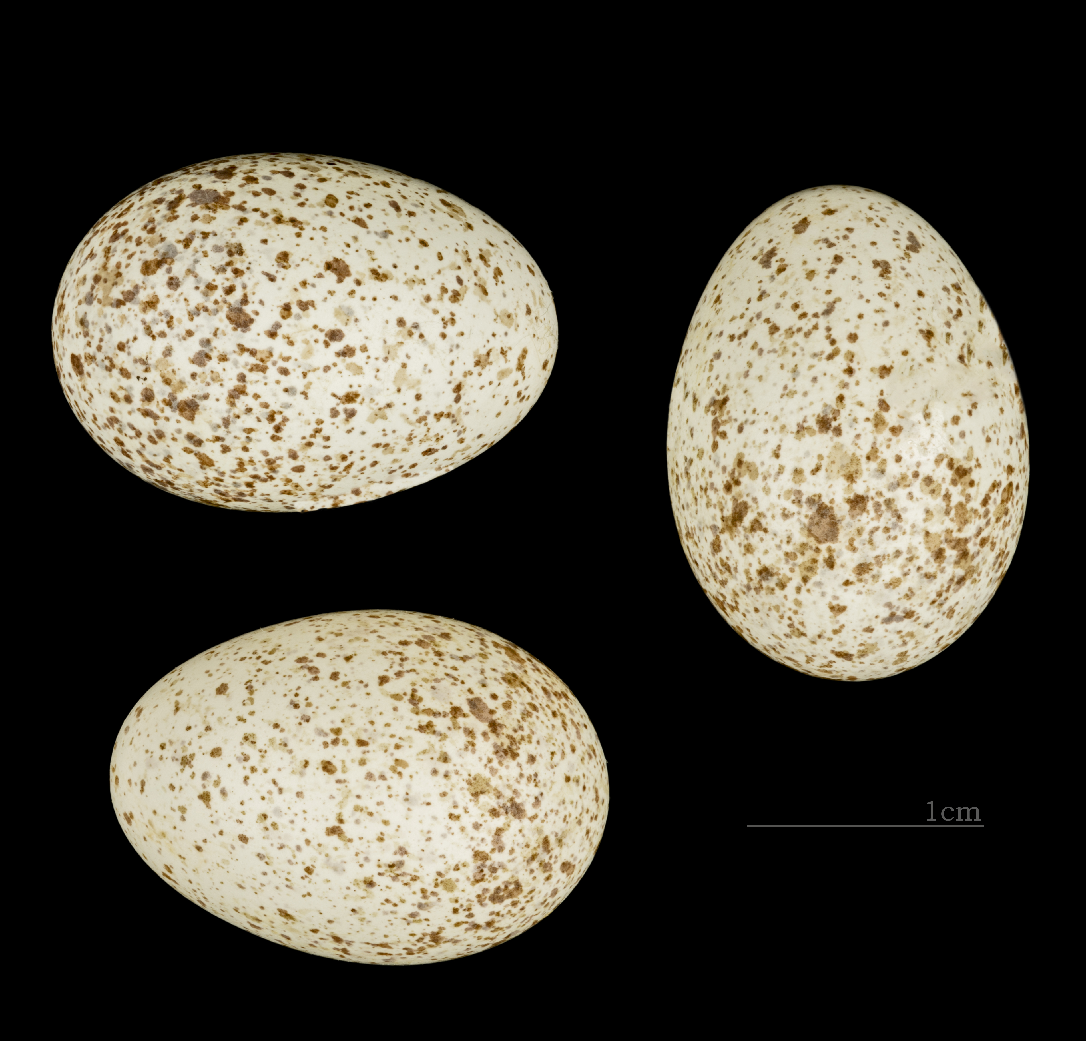 Egg of Bar-tailed Lark Collection of Henri Heim de Balsac/Jacques Perrin de Brichambaut.